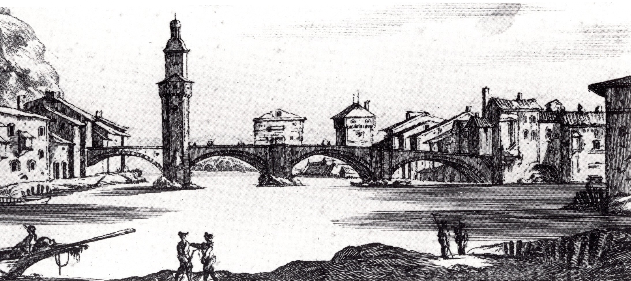 Engraving of the Bridge (the only bridge, till XVIIe century), with the Clock (Jacquemart) and the chapel, struck down by inundation in 1651.